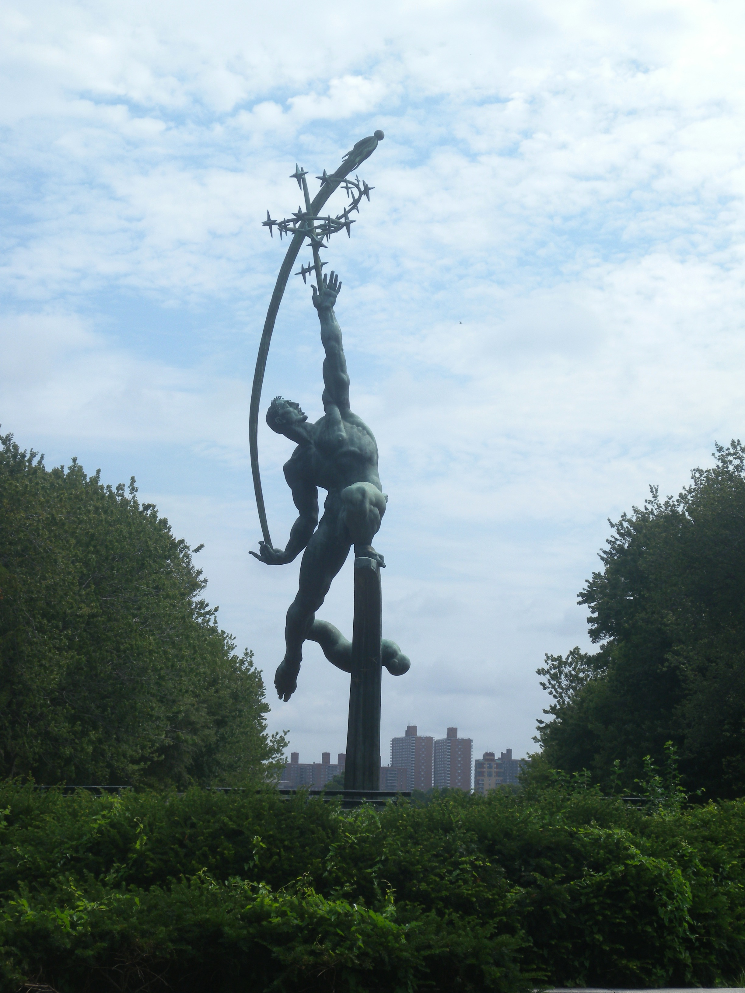 Looking east at Rocket Thrower on a mostly sunny late morning.